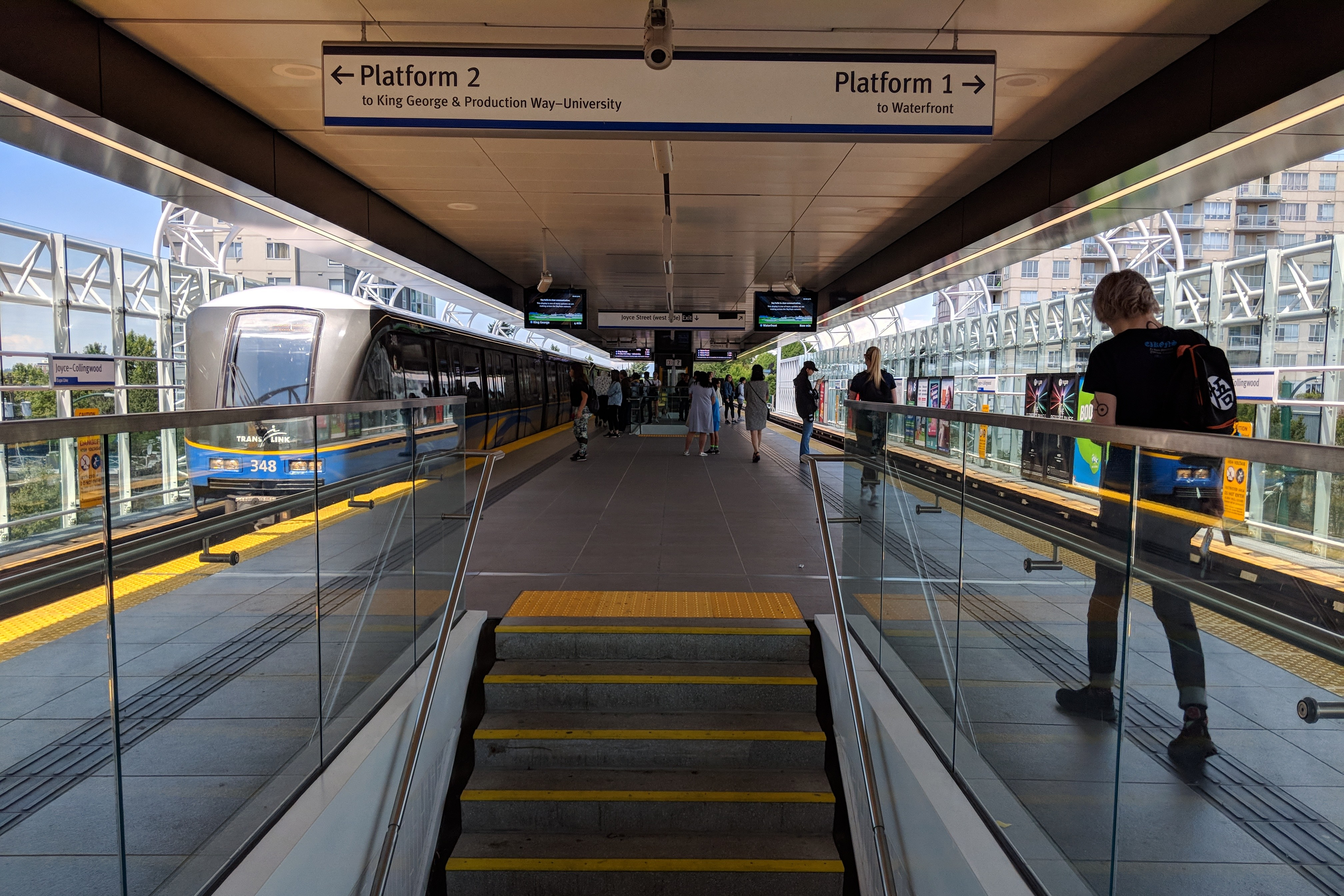 Platform level at Joyce–Collingwood station. June 2019.